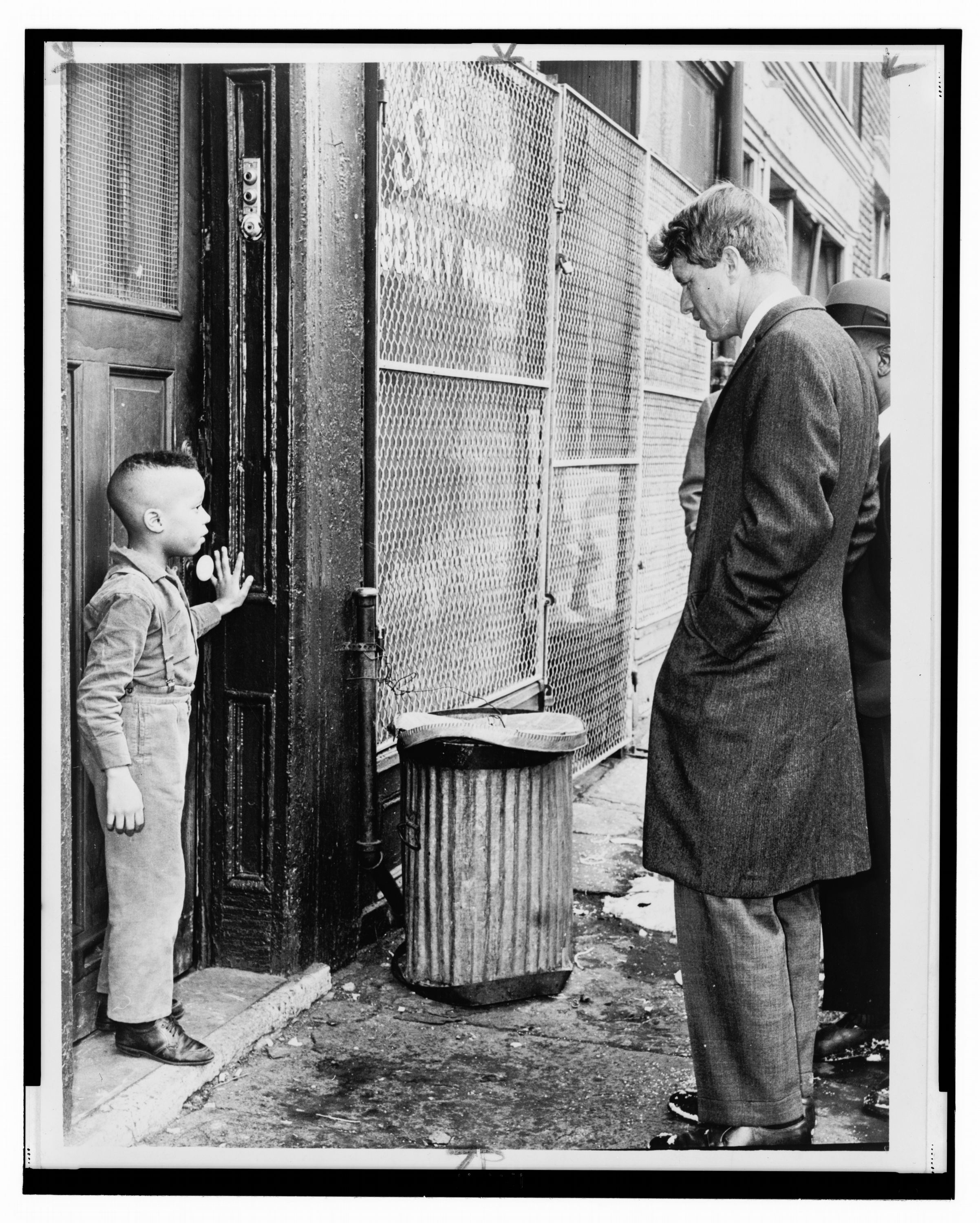 Senator Robert Kennedy discusses school with young Ricky Taggart of 733 Gates Ave. / World Telegram & Sun photo by Dick DeMarsico.